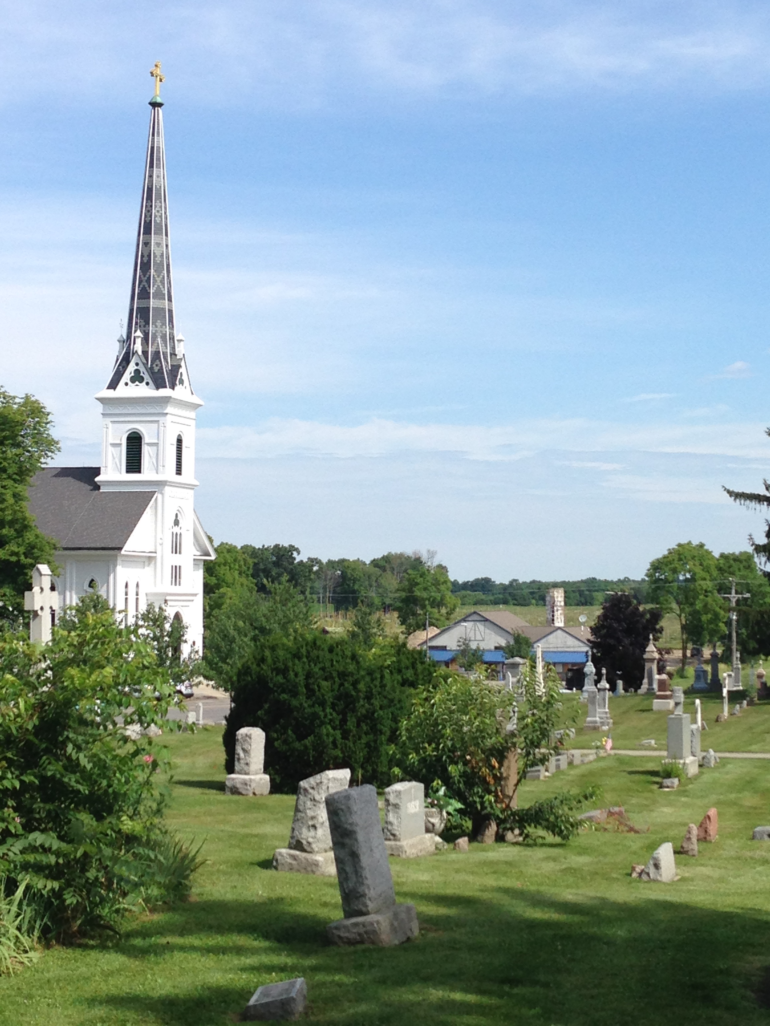 A view from St Patrick's Cemetery of the church and surroundings.